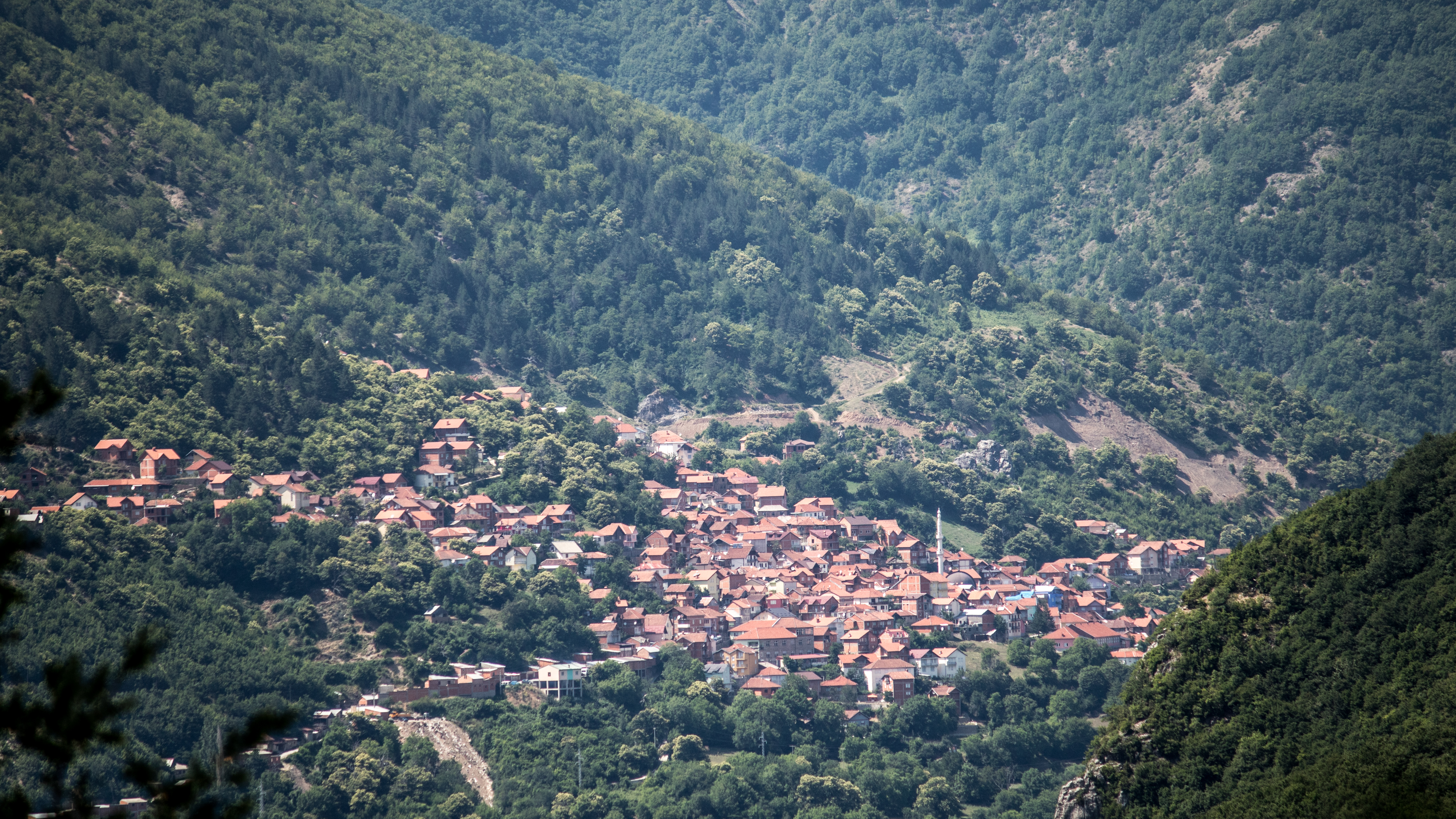 View of the village Mogorče